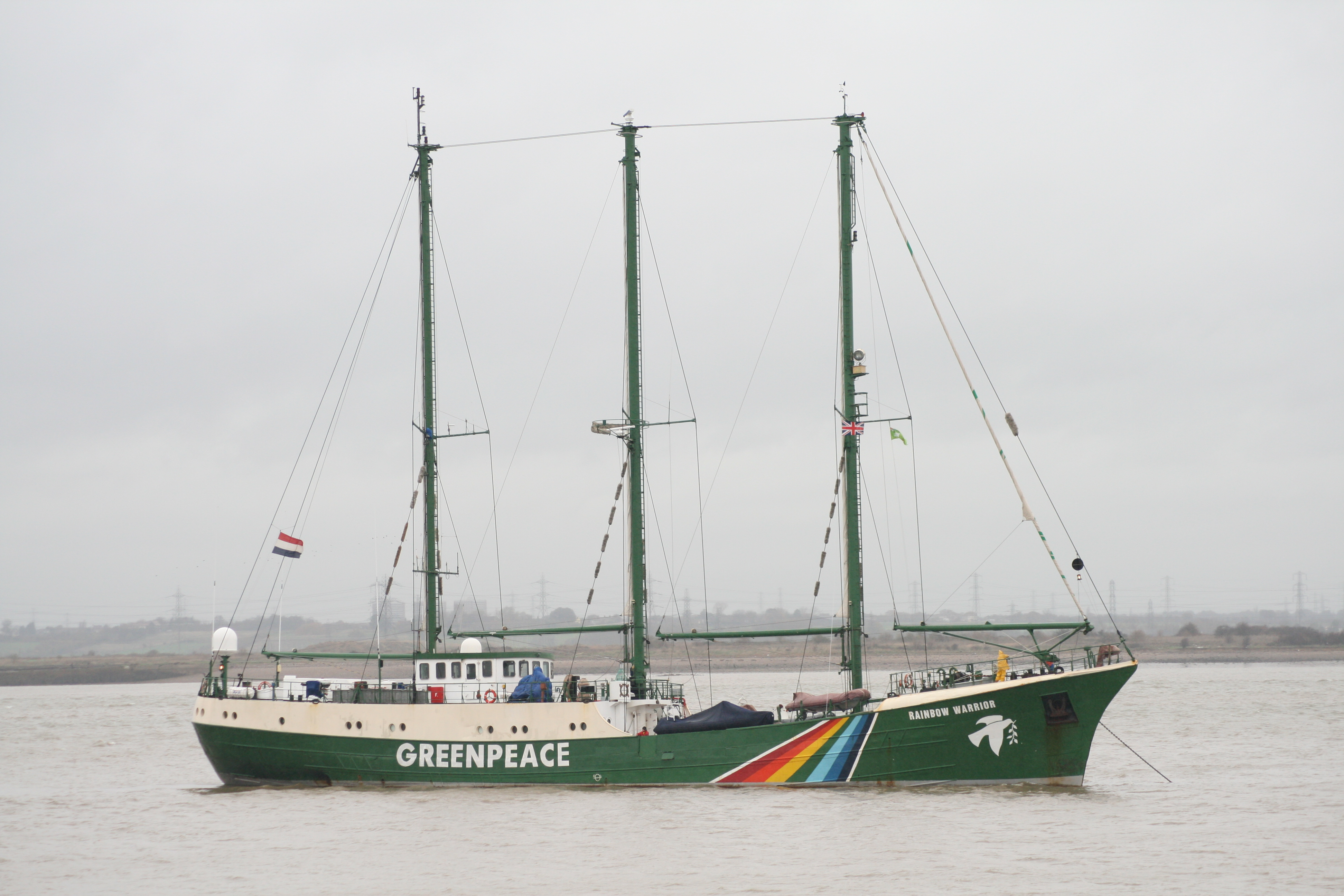 The Greenpeace ship Rainbow Warrior is currently visiting the port of London before going on to Edinburgh (Leith). For more information please visit my blog - She is pictured here anchored at Higham Bight in the River Thames on 20th November 2009 before she proceded upriver to West India Dock